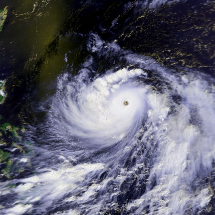 Typhoon Peggy on July 6 at approximately 0543 UTC. This image was produced from data from NOAA-9, provided by NOAA.